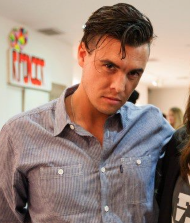 a picture of rob heppler at an art gallery